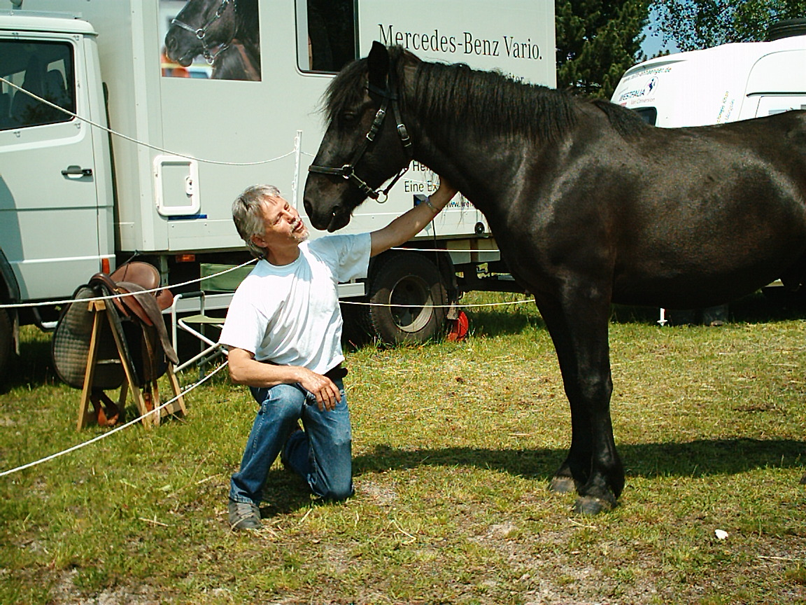 Manfred Schulze, german long rider with his horse Temujin at the "Pferd International"-Fair in Munich, 2004